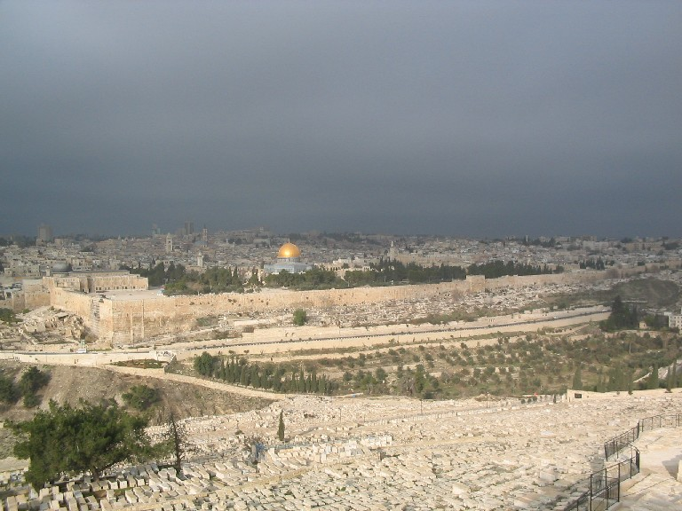 View of Jerusalem,ISRAEL